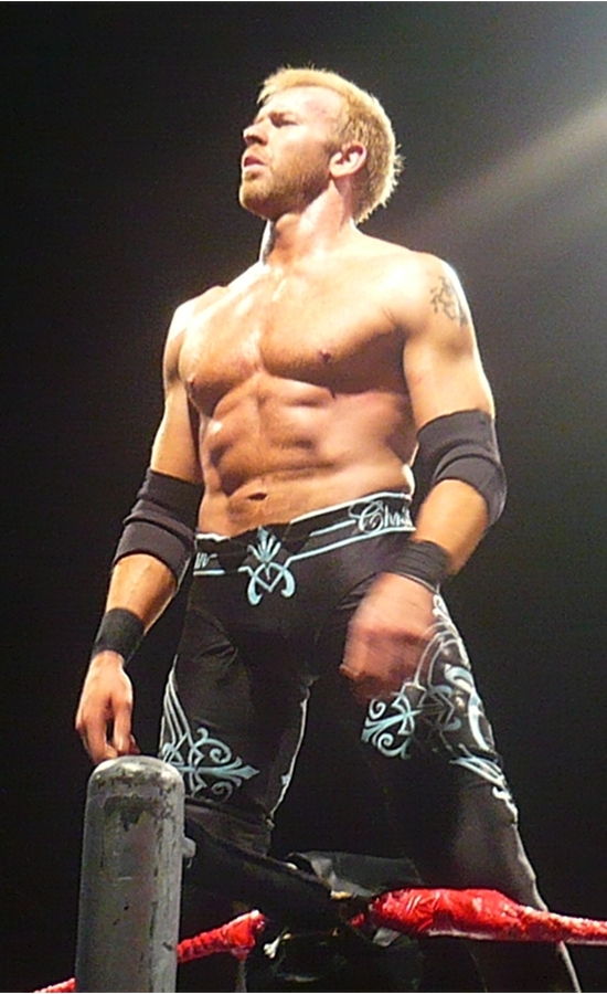 Christian in Belfast